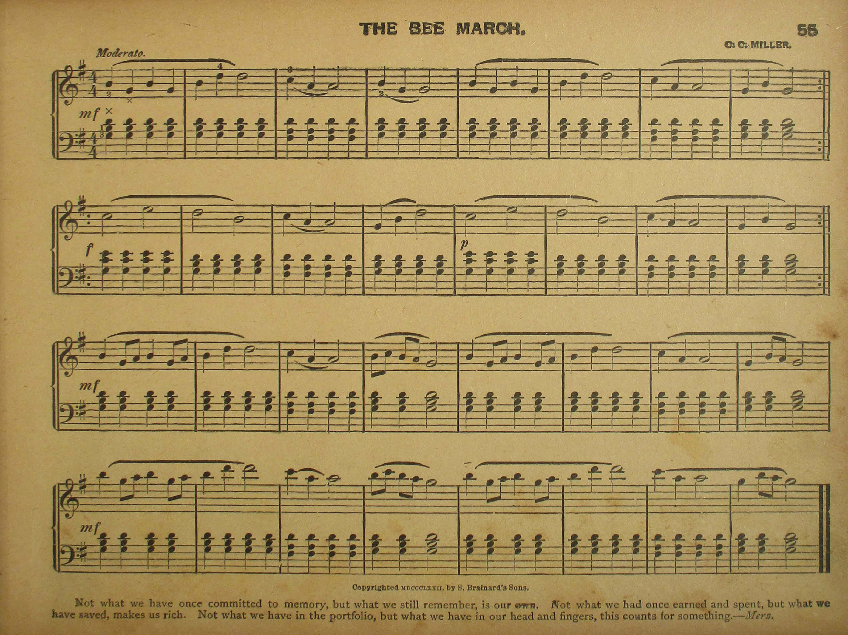 Individual song page taken from: Moline Organ Instructor. A Complete Method for Parlor Organ. New Easy Method for the Reed Organ Containing Complete and Thorough Instructions and a Choice Selection of Vocal and Instrumental Music. Published By Peterson & Co., Moline, Ill.